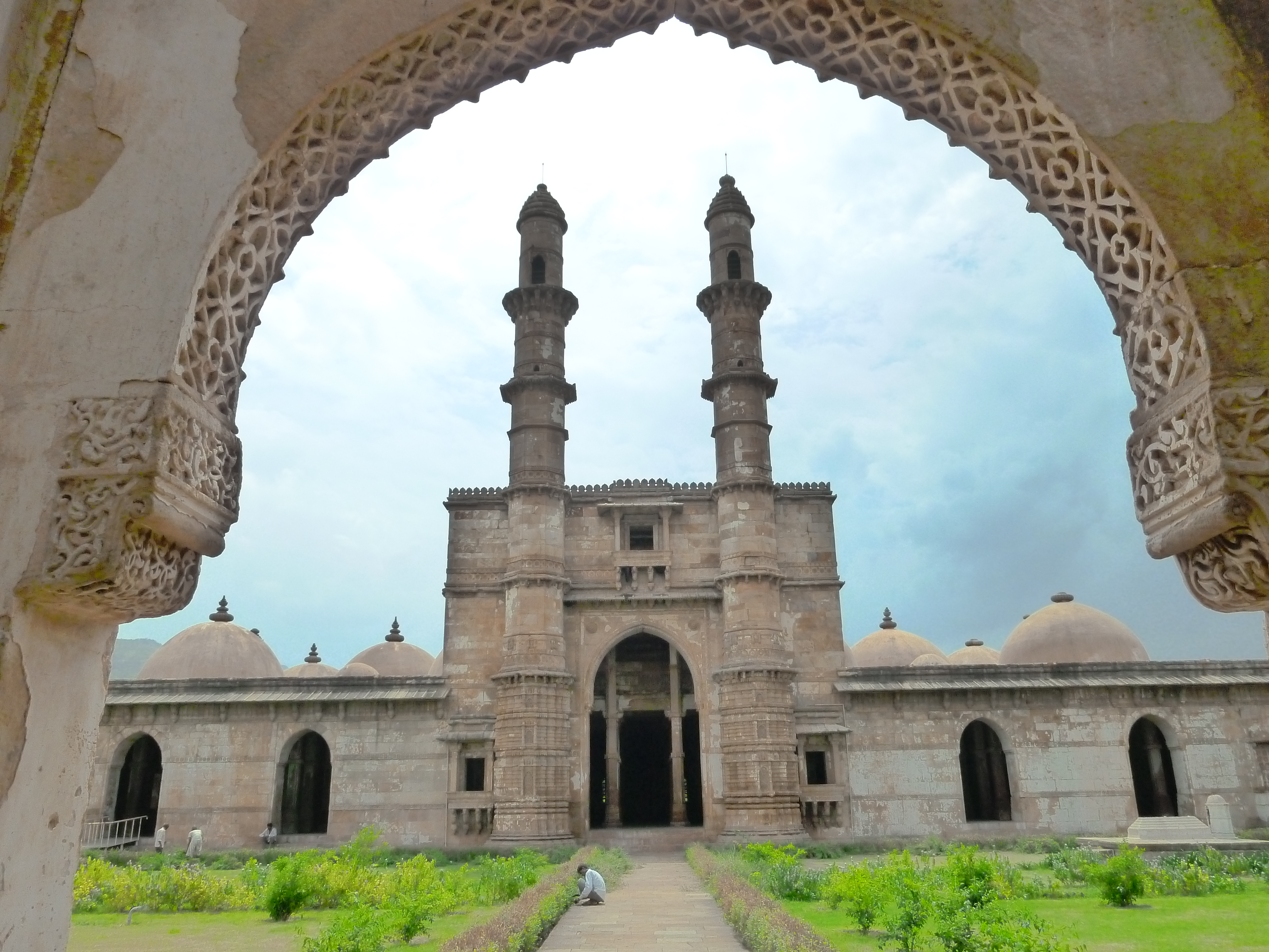 Jami Masjid